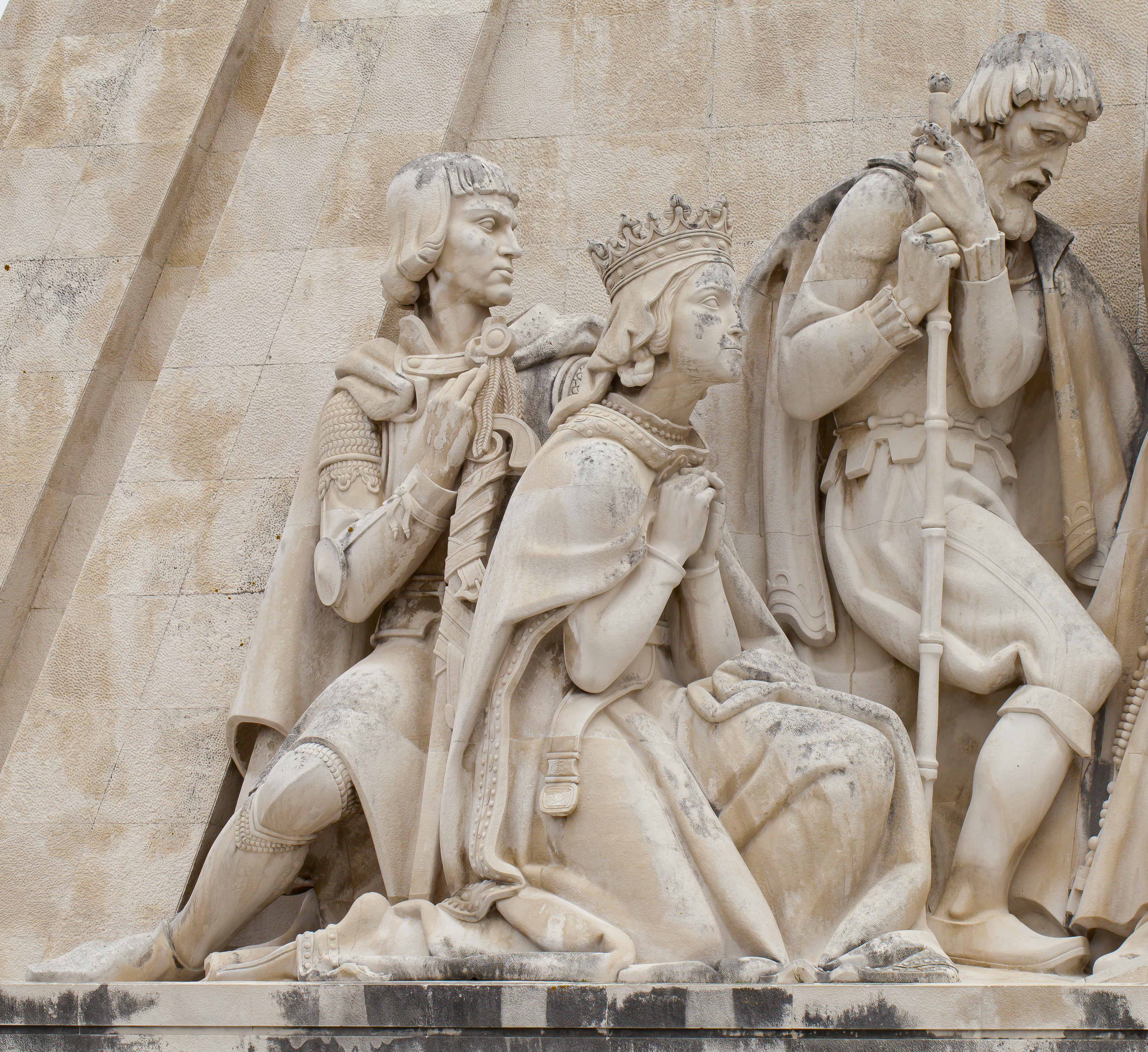 Monument to the Discoveries in Belém (Lisbon), Portugal